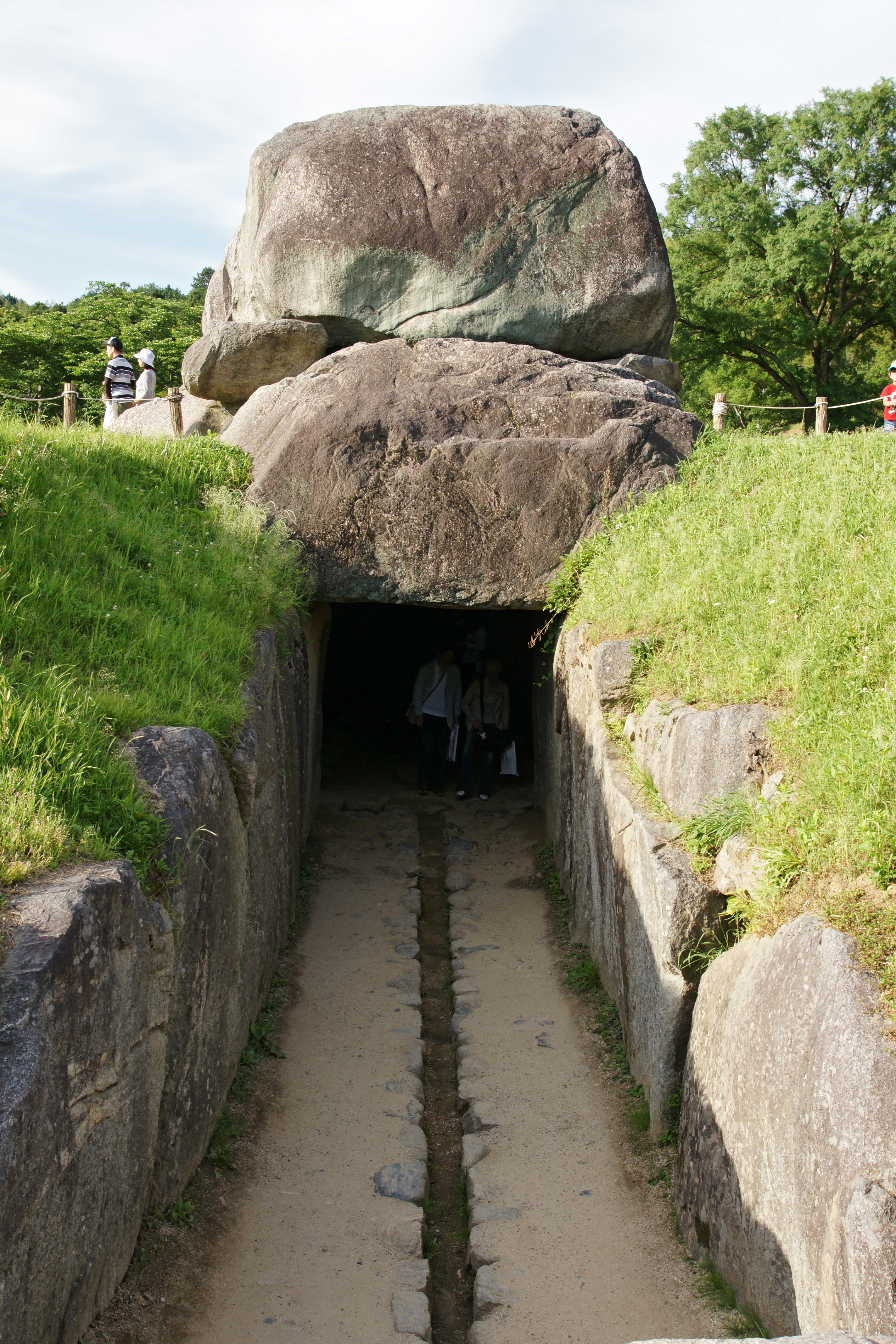 Ishibutai Kofun in Asuka, Nara Prefecture, Japan.